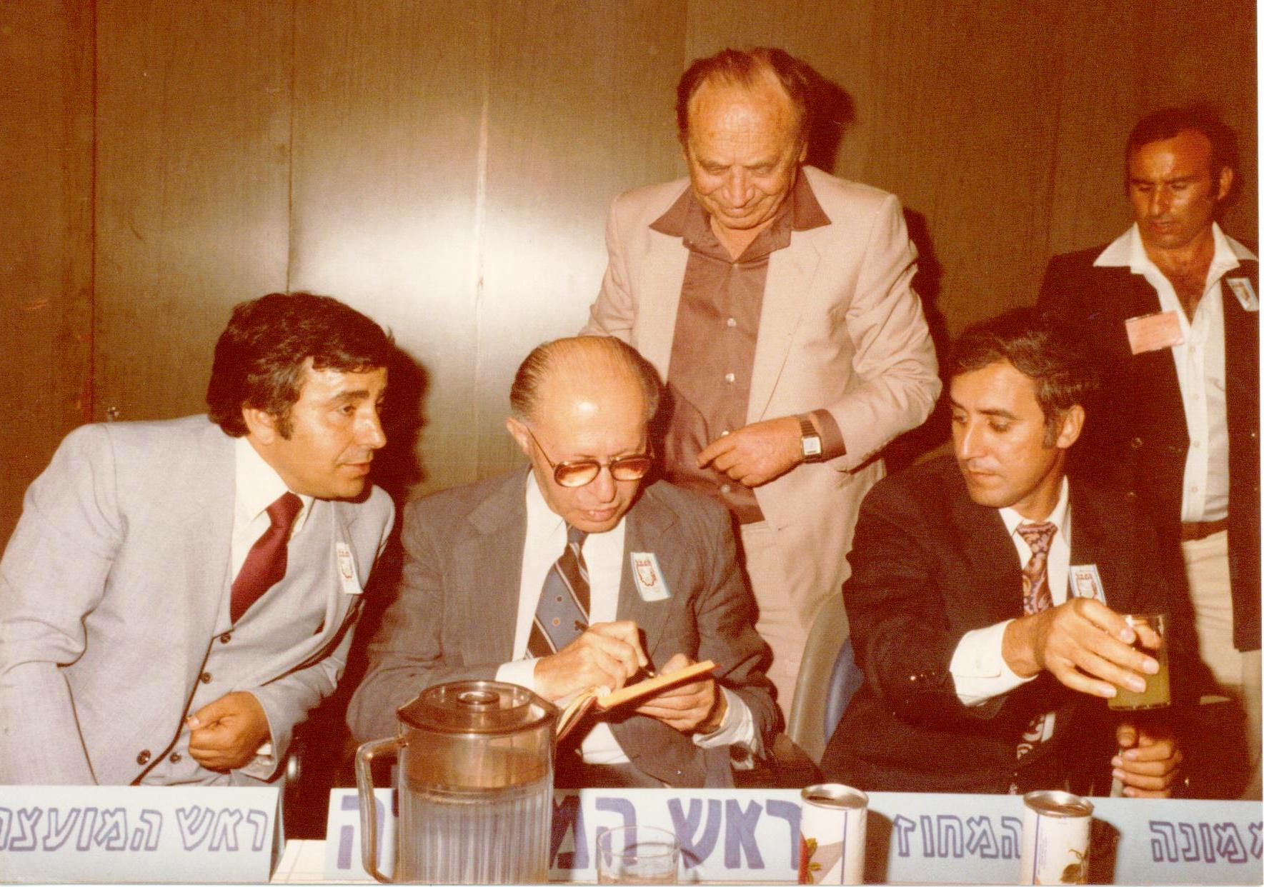 Events in Israel